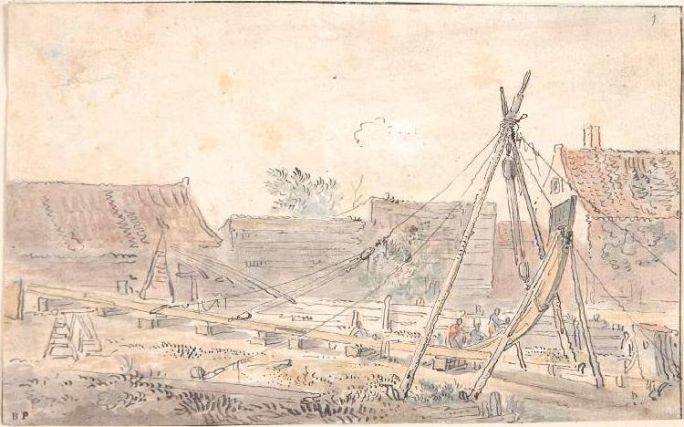 A shipyard. Pen, ink and watercolor on paper. 8.7 × 14.2 cm. Cambridge, Fitzwilliam Museum. Inventory number PD.83-1963.